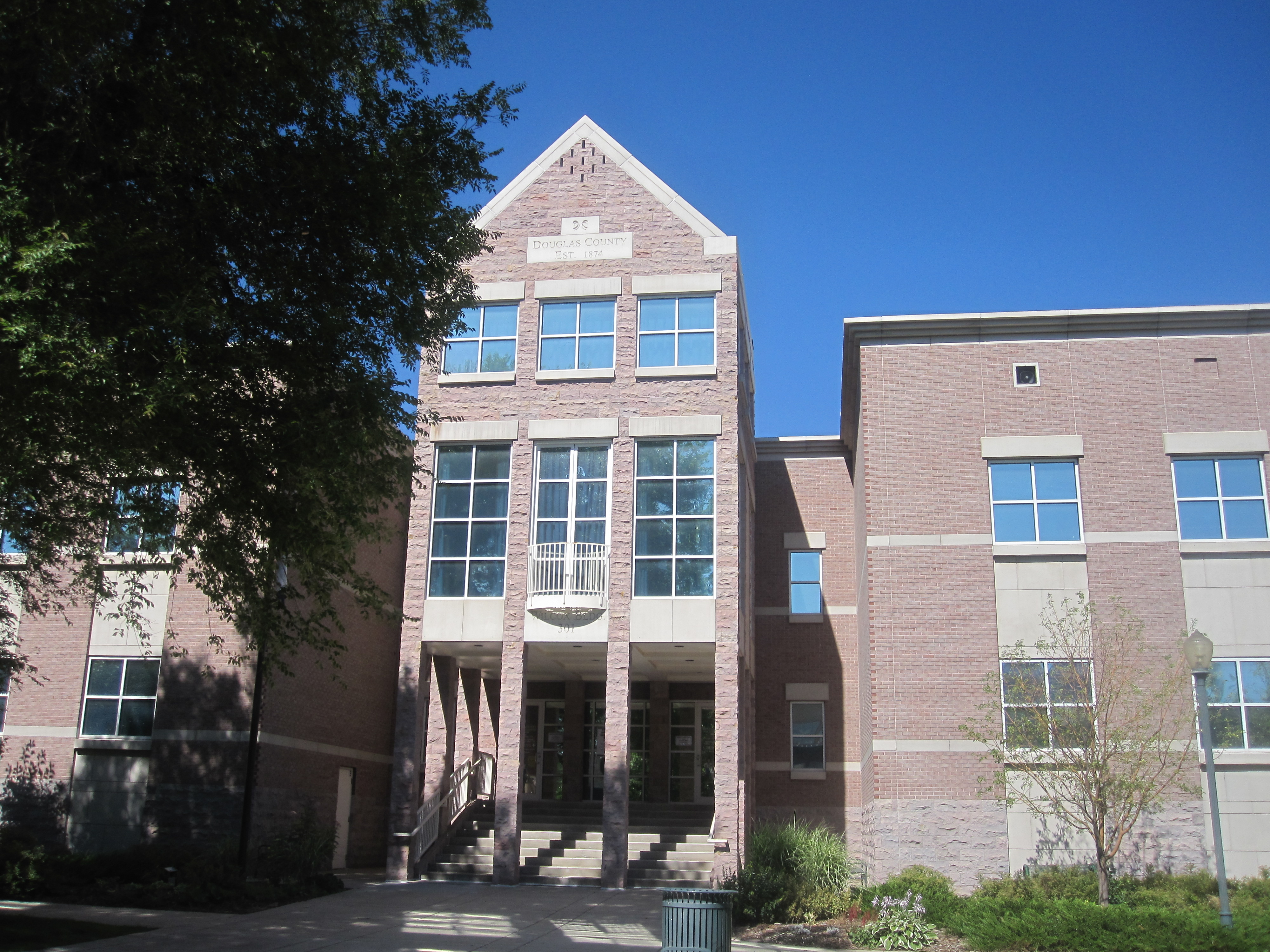 I took photo with Canon camera in Castle Rock, CO.